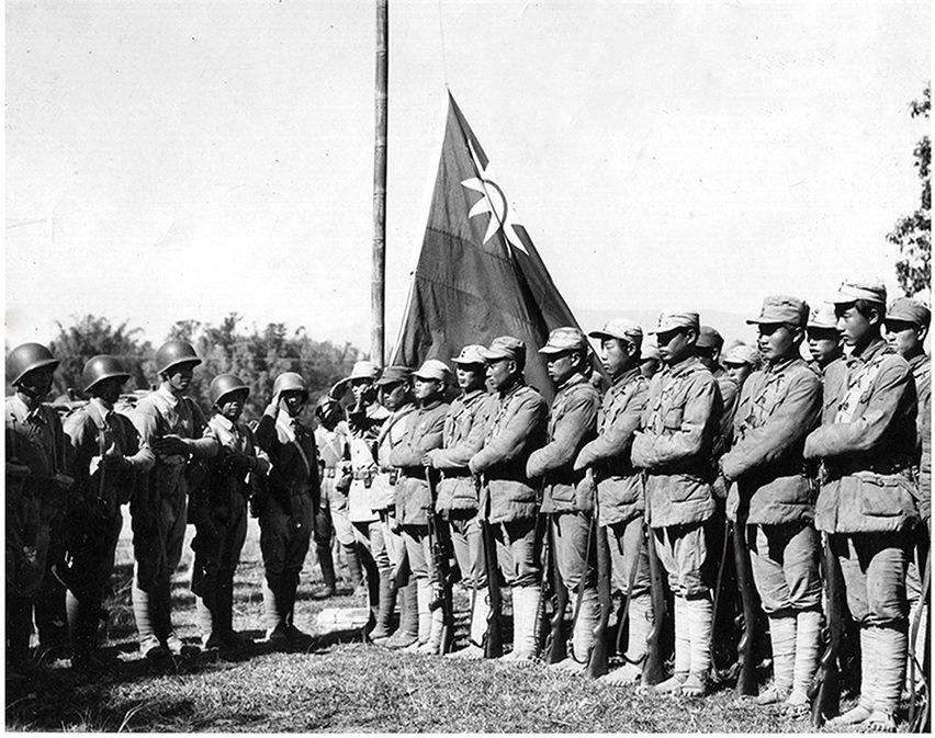 Elements of the Chinese Expeditionary Force (The X Force and the Y Force) converged in Mong-yu, Burma.